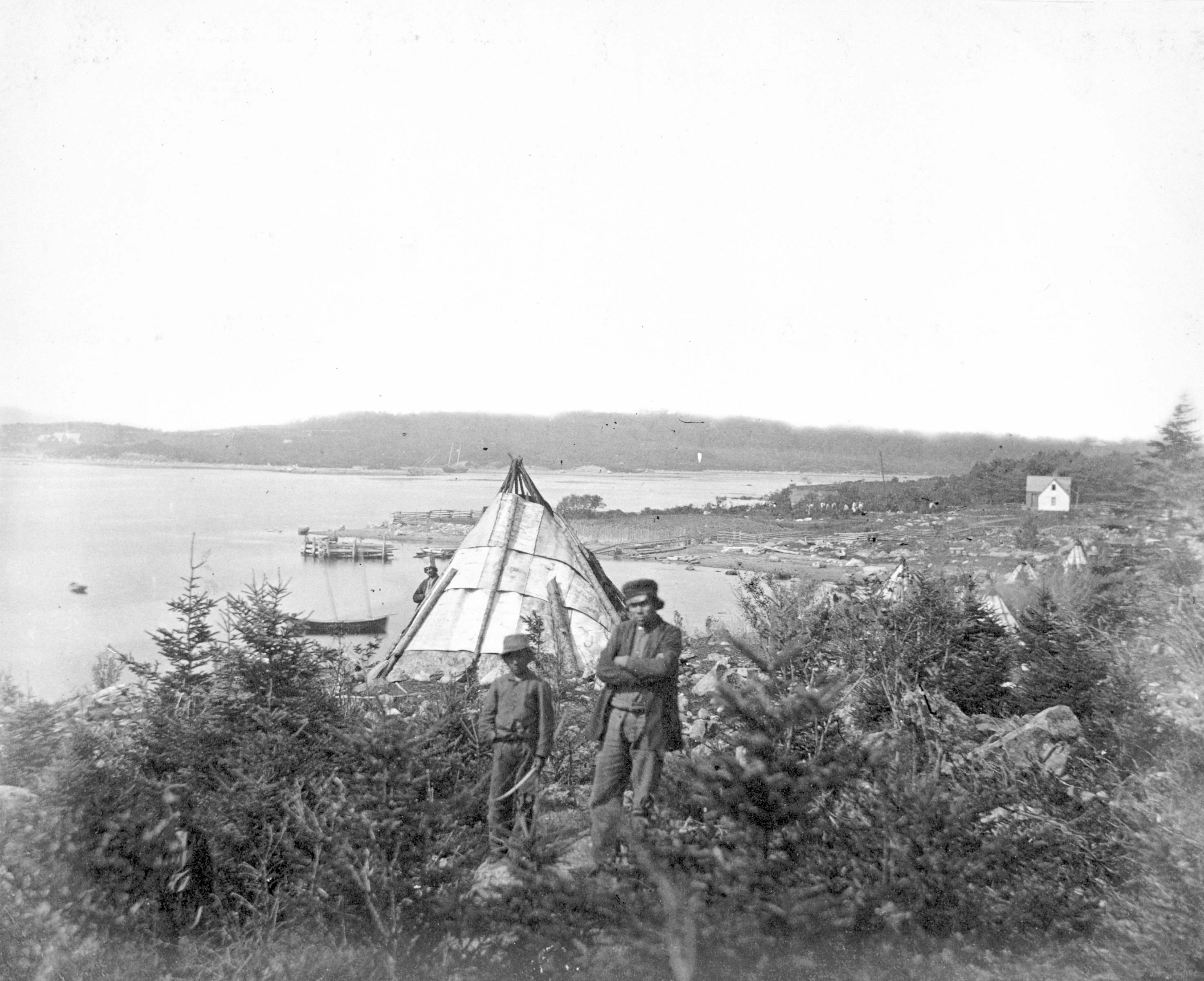 Mi'kmaq (First Nations peoples) at Tuft's Cove settlement, Dartmouth, Nova Scotia, Canada.